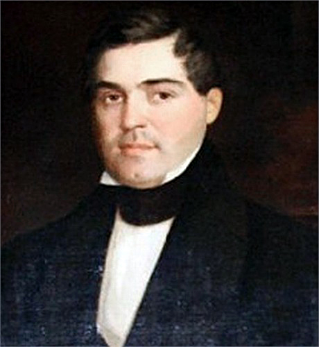 Joseph Henry Kuhns, US Representative from Pennsylvania